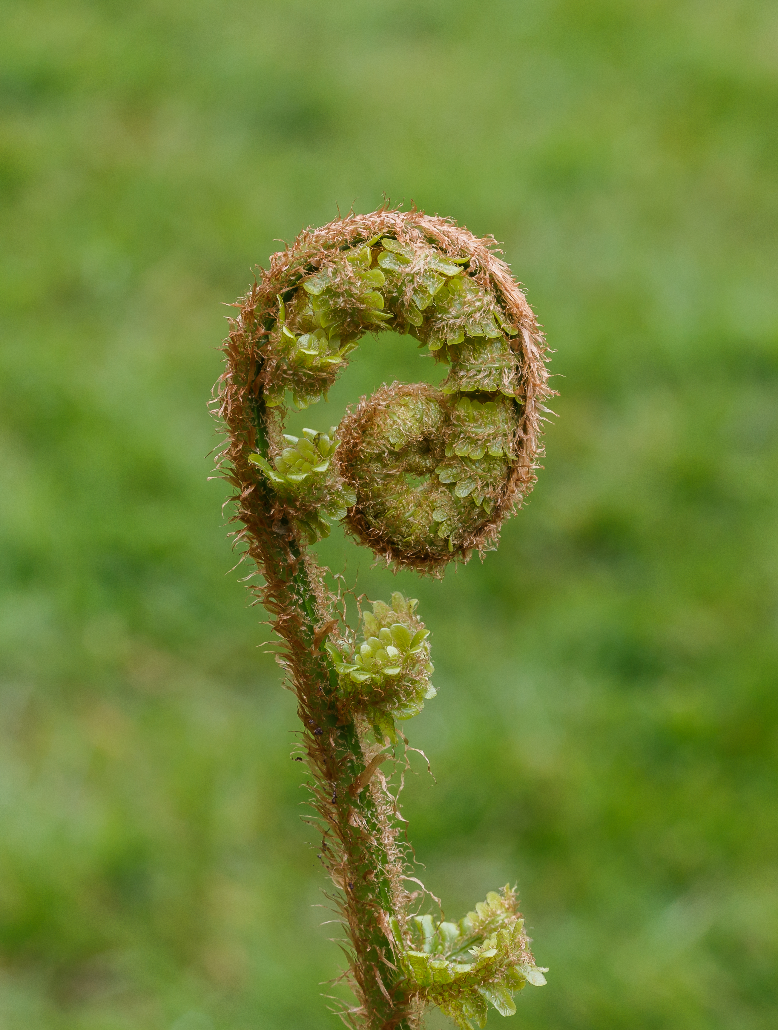 Magnificent unfurling young leaves of male fern (Dryopteris filix-mas). Location, Tuinreservaat Jonkervallei in the Netherlands.